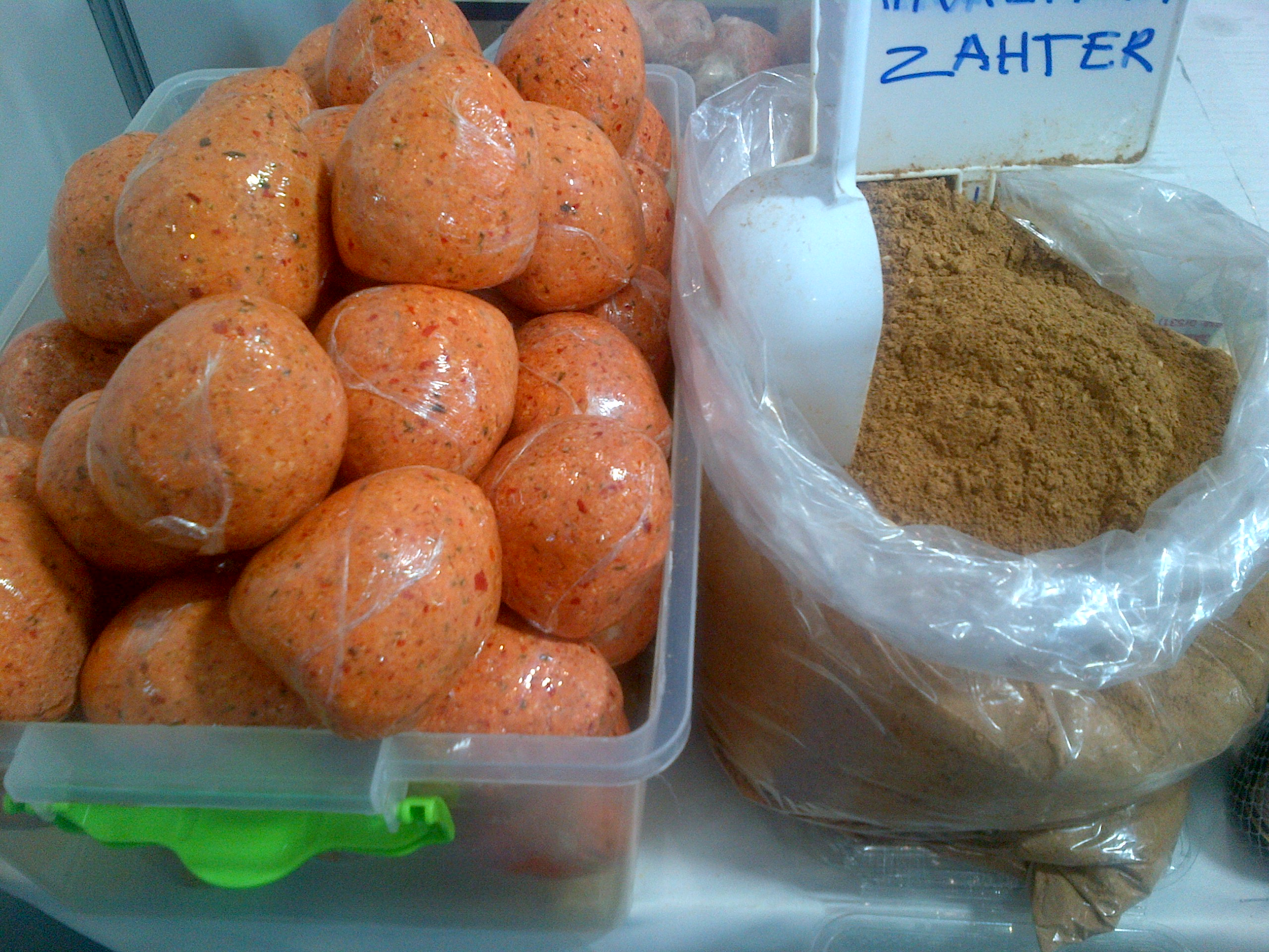 Sürk peyniri (cheese) to the left, and "zahter" one of the local spices used in its elaboration in Hatay (Antakya).